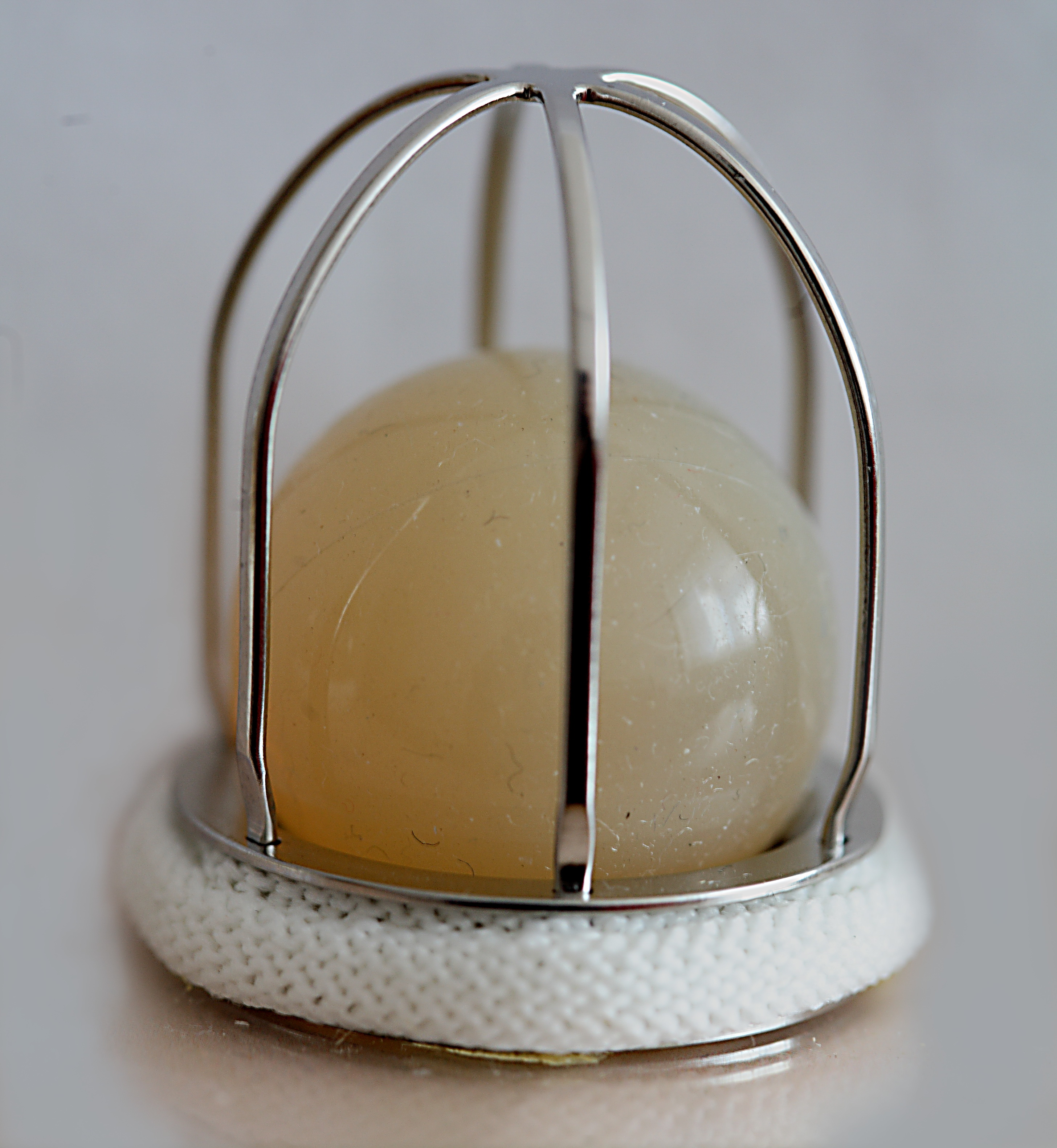 MKCH-01 artificial heart valve